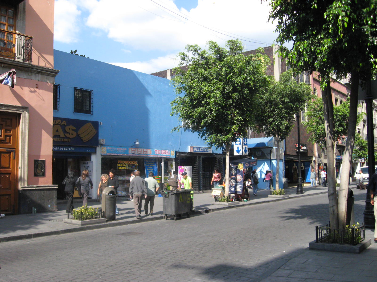 Entrance to Metro station Allende located on Line 2 of the Mexico City Metro system